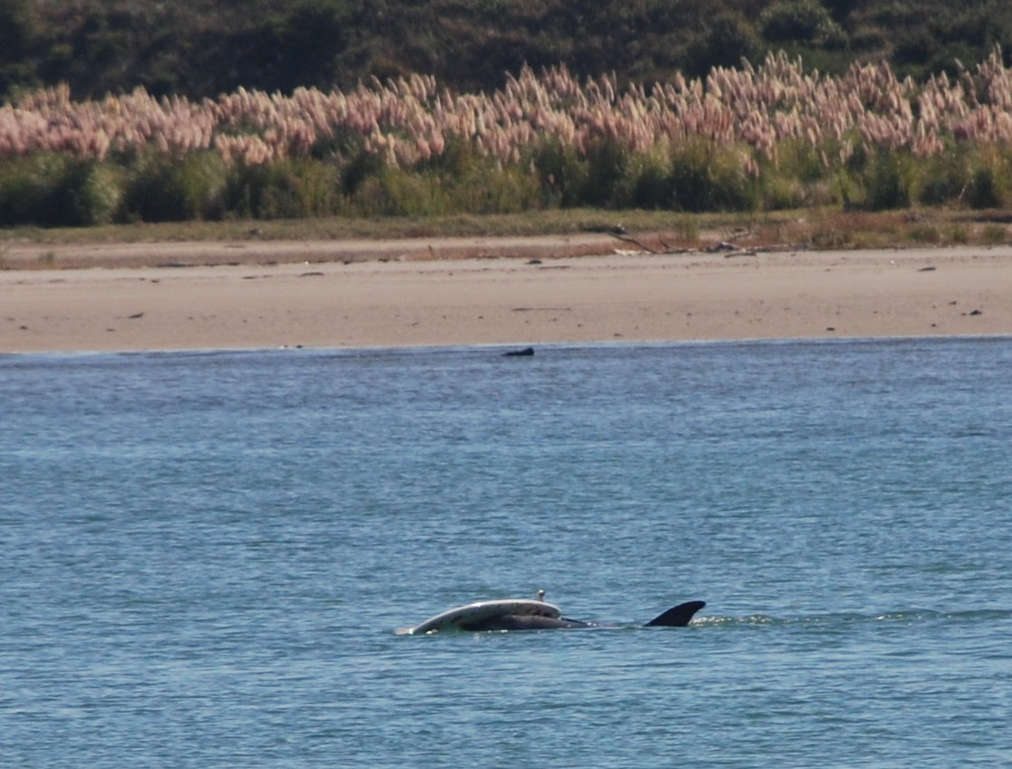 The Bay of Plenty's resident friendly dolphin known as Moko, stole a surfboard this day and proceded to spend the afternoon playing with it.